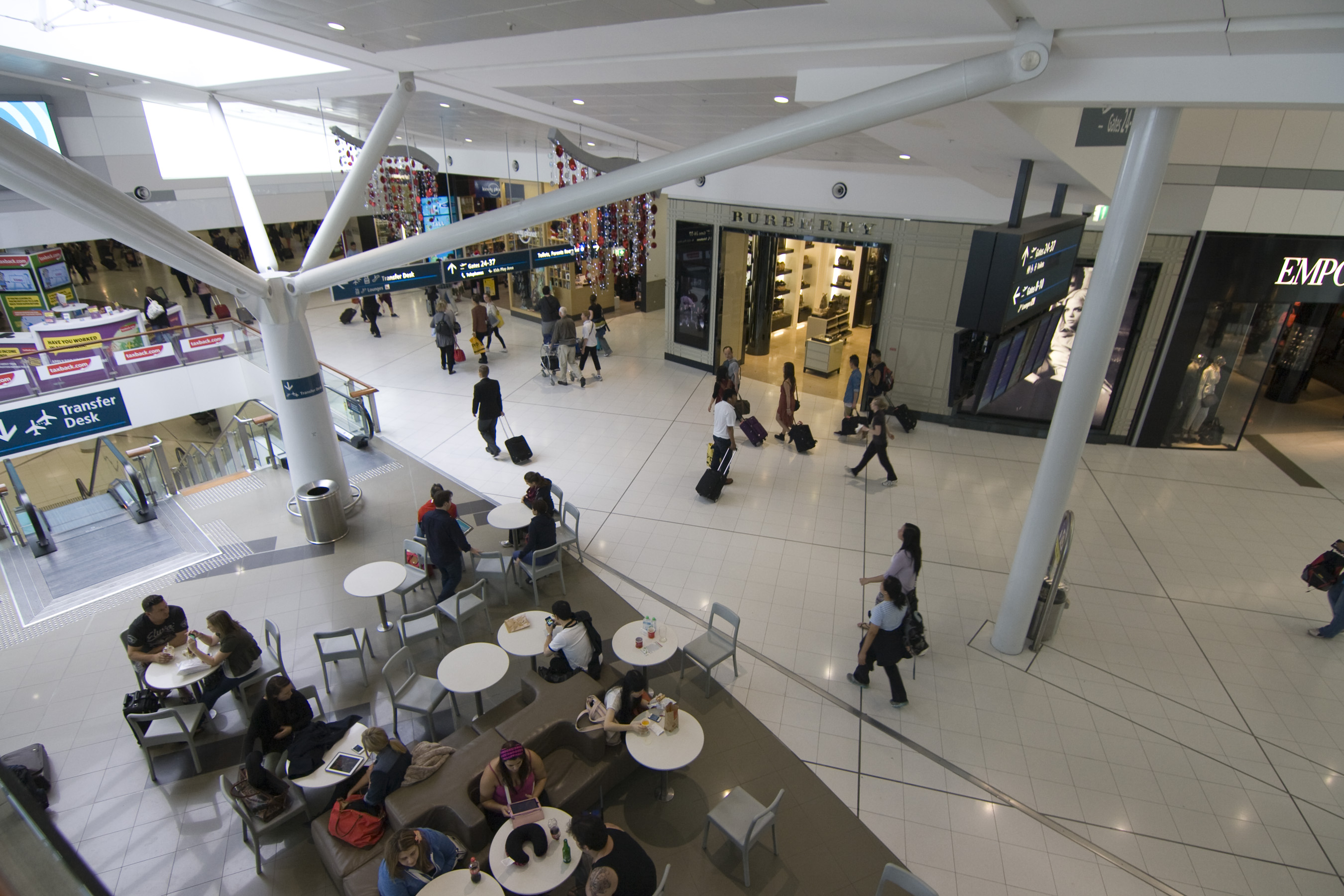 Sydney Kingsford Smith airport. International departures